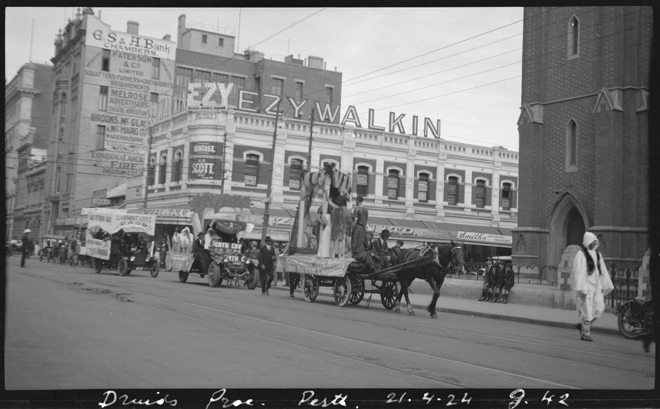 Druids procession moving north along William Street, passing Hay Street (west). E.S.& A. Bank Chambers, 43 William Street, Ezywalkin, 741-745 Hay Street. (Perth, Western Australia. Izzy Orloff collection ; BA1059/1025